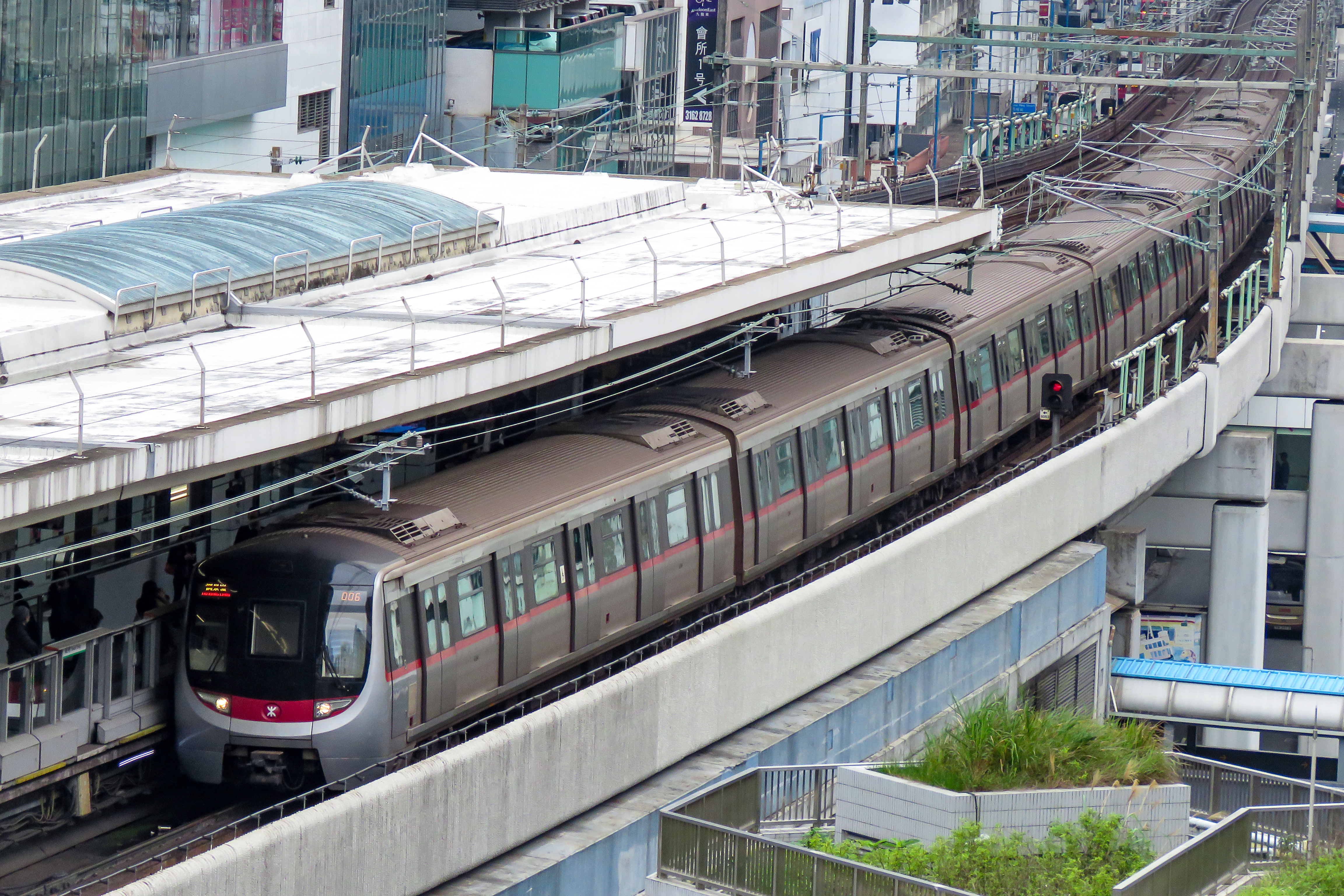 A3xx (Tc1) - C3xx (Mp1) - B3xx (MH1) - B8xx (MH3) - C8xx (MPH) - B3xx (MH2) - C3xx (Mp2) - A3xx (Tc2)... that's the layout. Cars 3-6 have hostler panels.